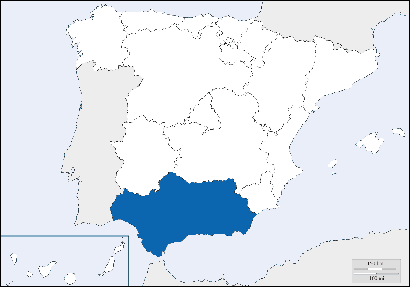 Location of Andalusia within Spain.